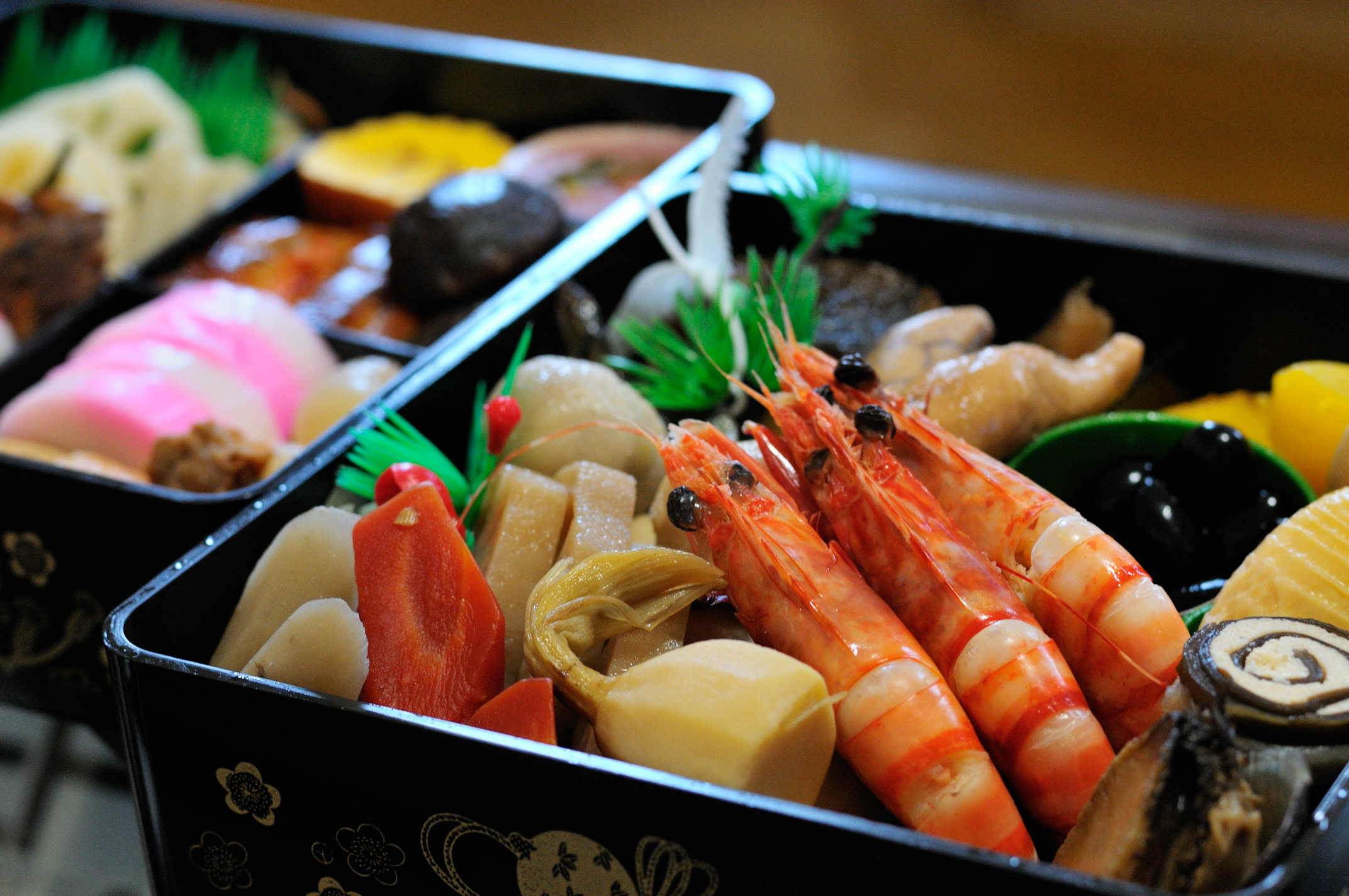 Traditional dishes for new year in Japan